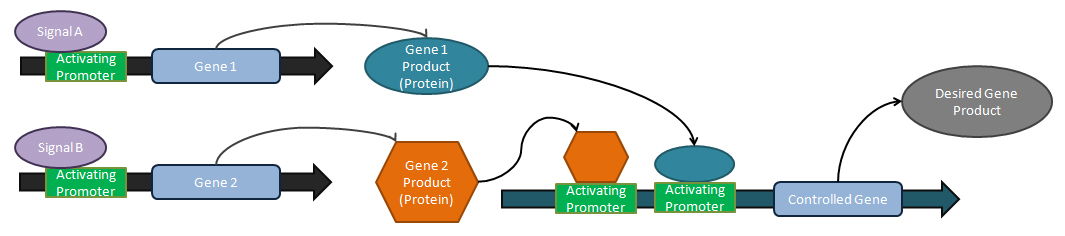 Depiction of OR logic gate described in Silva-Rocha and Lorenzo "Mining logic gates in prokaryotic transcriptional regulation networks"